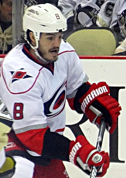 Carolina Hurricanes forward Kevin Westgarth lines up against the Pittsburgh Penguins, April 27, 2013 at Consol Energy Center in Pittsburgh, PA.